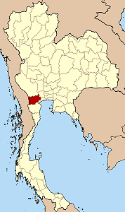 Map of Thailand highlighting Ratchaburi province